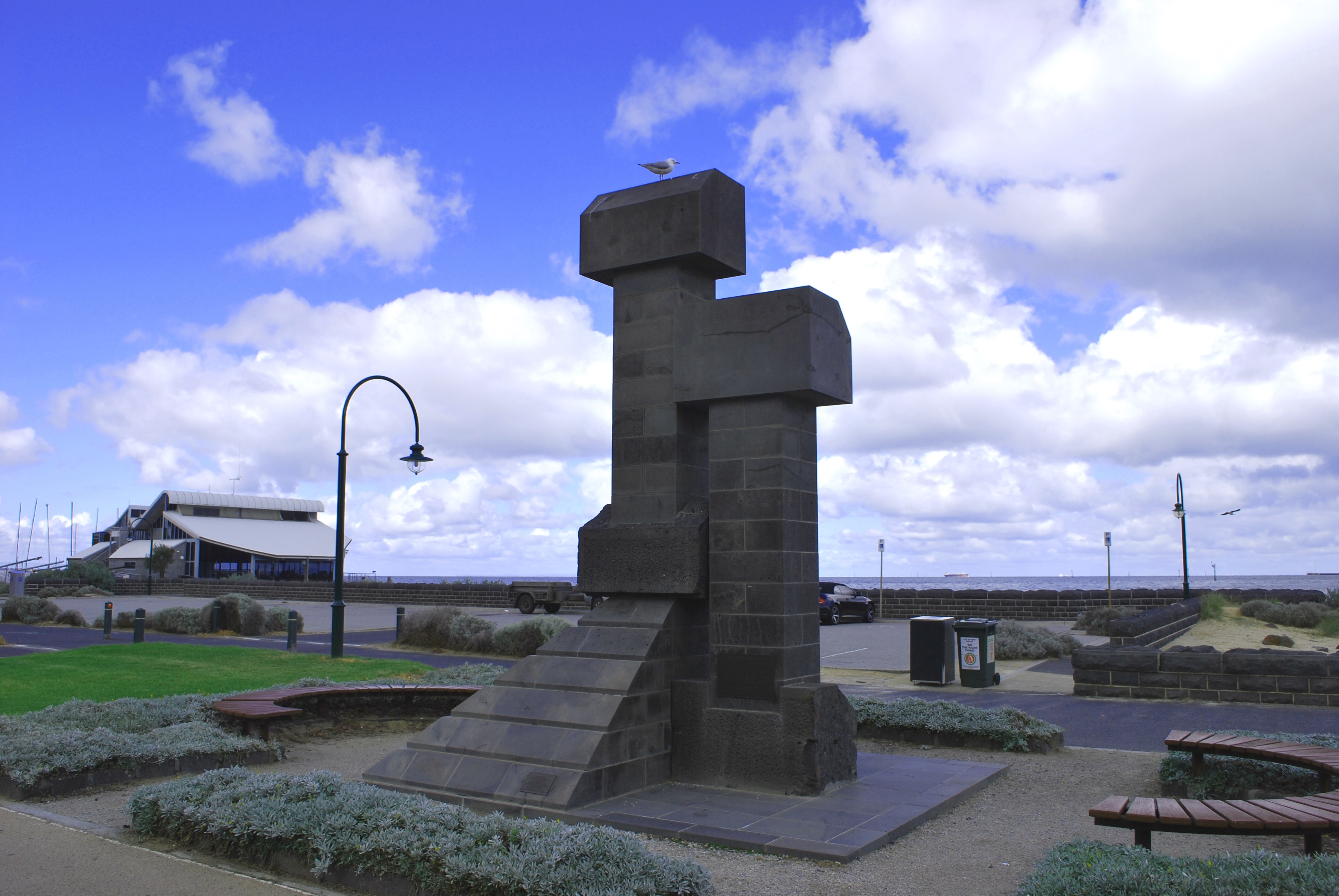 Liardet memorial at Port Melbourne, Victoria